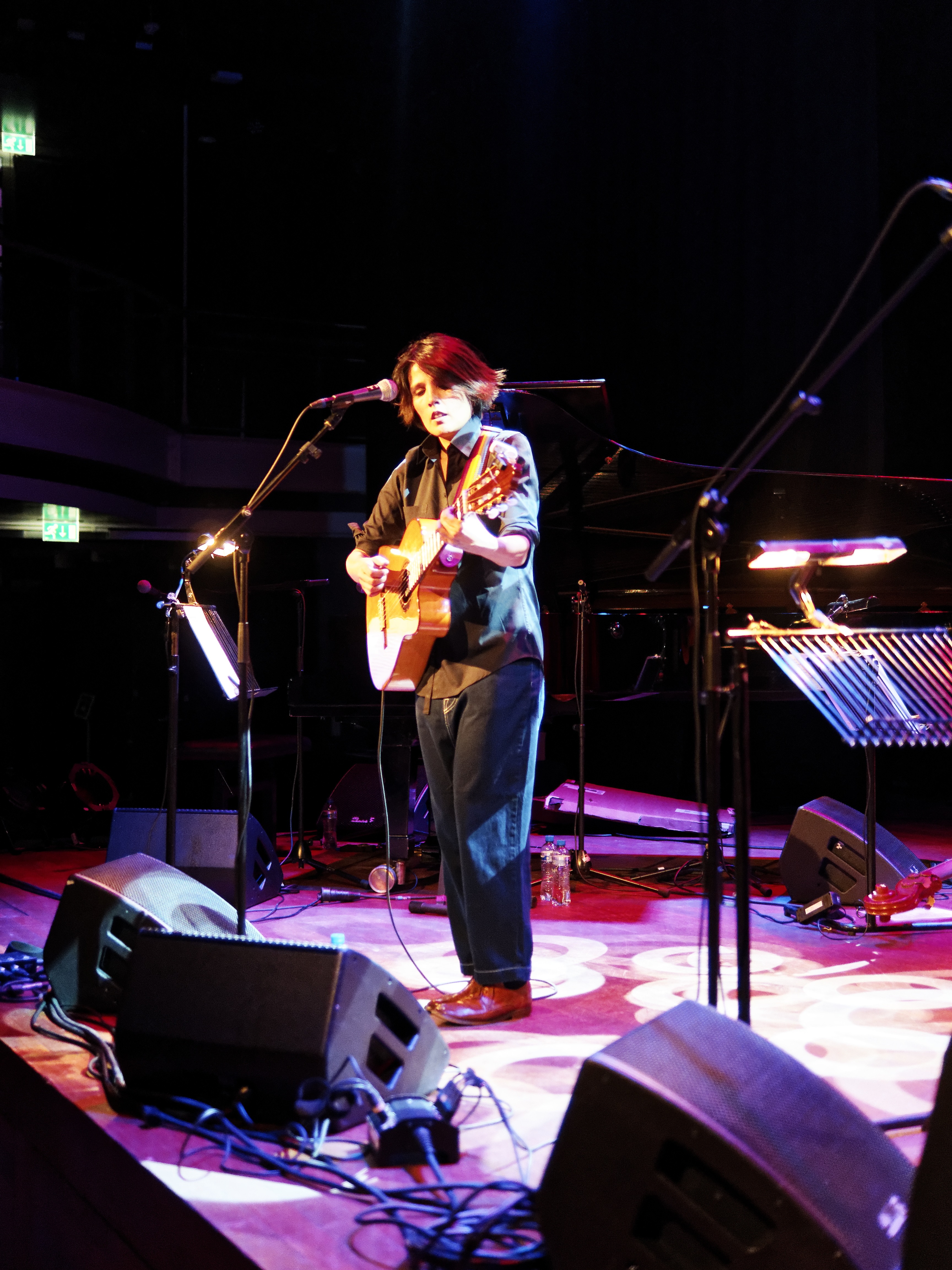 Tanita Tikaram – Closer To The People. Perfromance by Tanita Tikaram at TivoliVredenburg, Utrecht, Netherlands, on April 4th 2016.